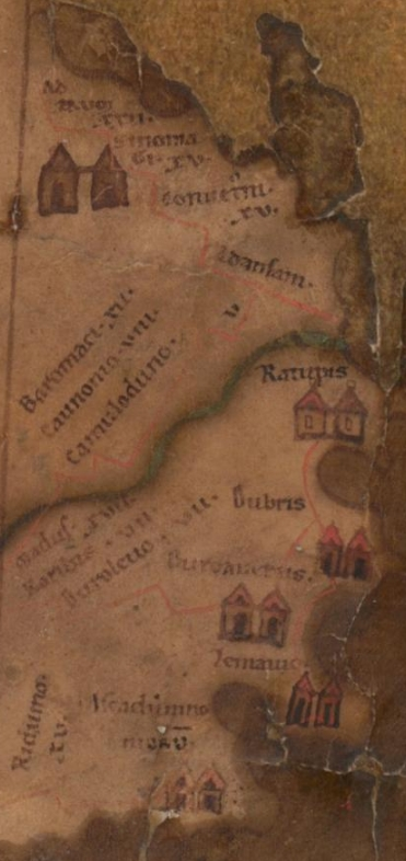 Tabula Peutingeriana (Codex Vindobonensis 324): detail of southeastern Britannia